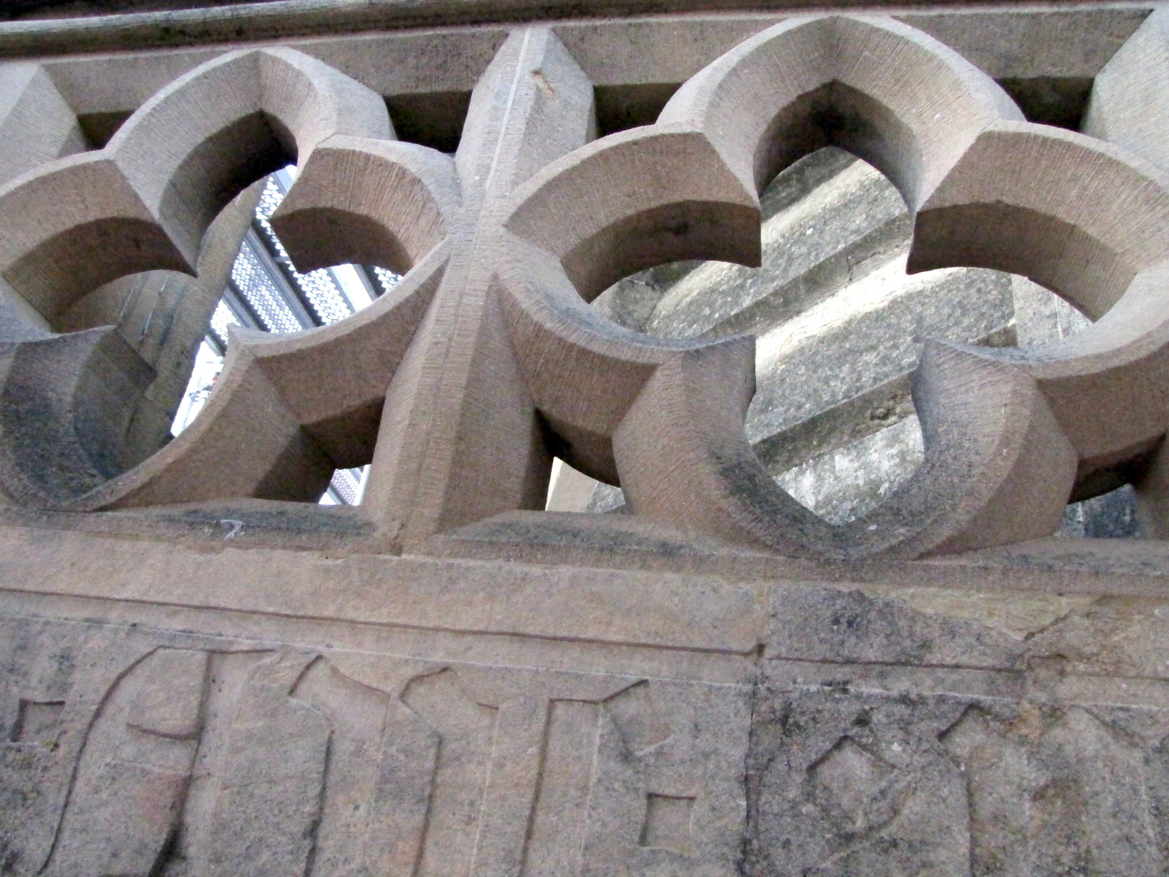 Quatrefoils from collégiale de Neuchâtel